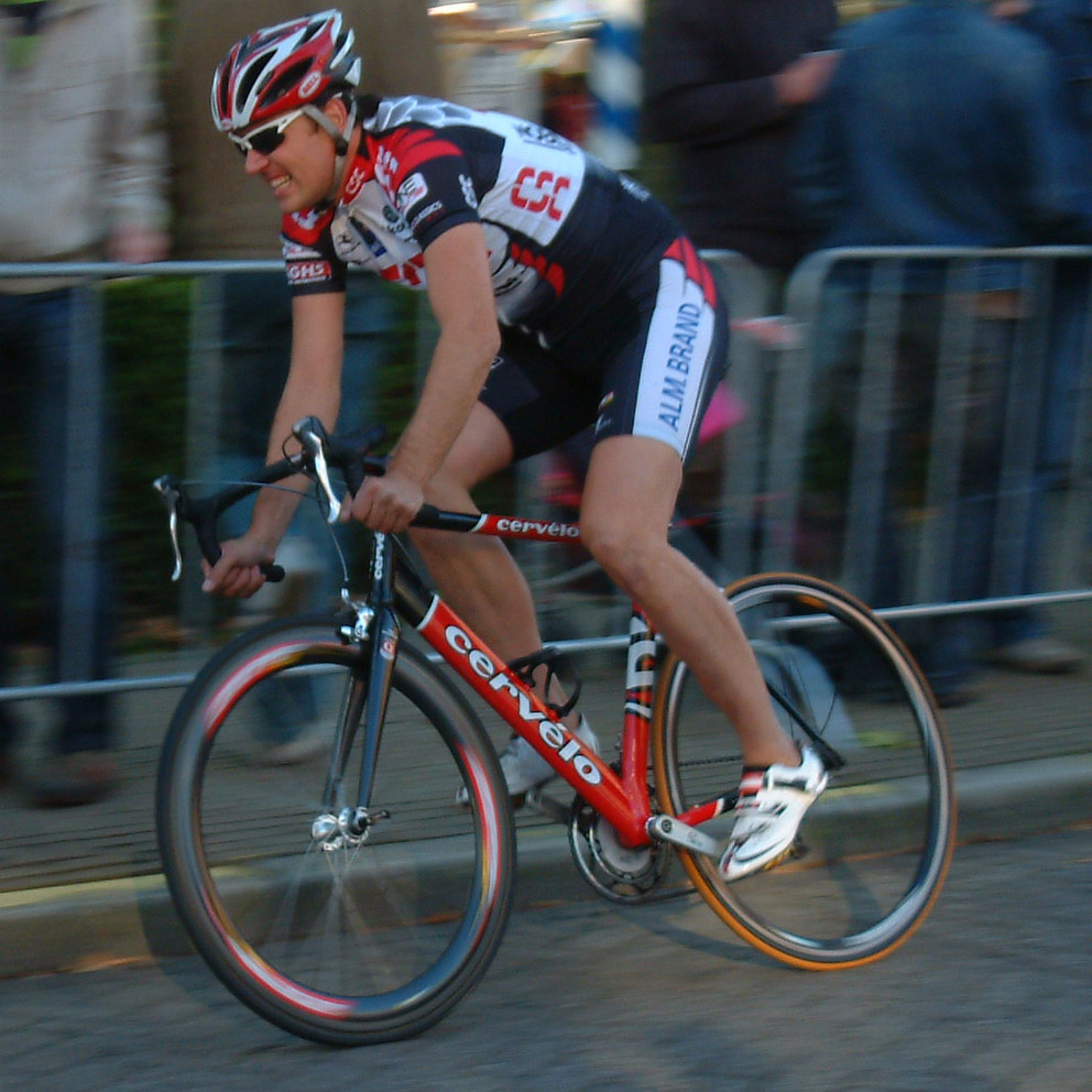 Tristan Hoffman in the criterium 'Dwars Deur Grolle' in Groenlo, held when he quit cycling professionally.